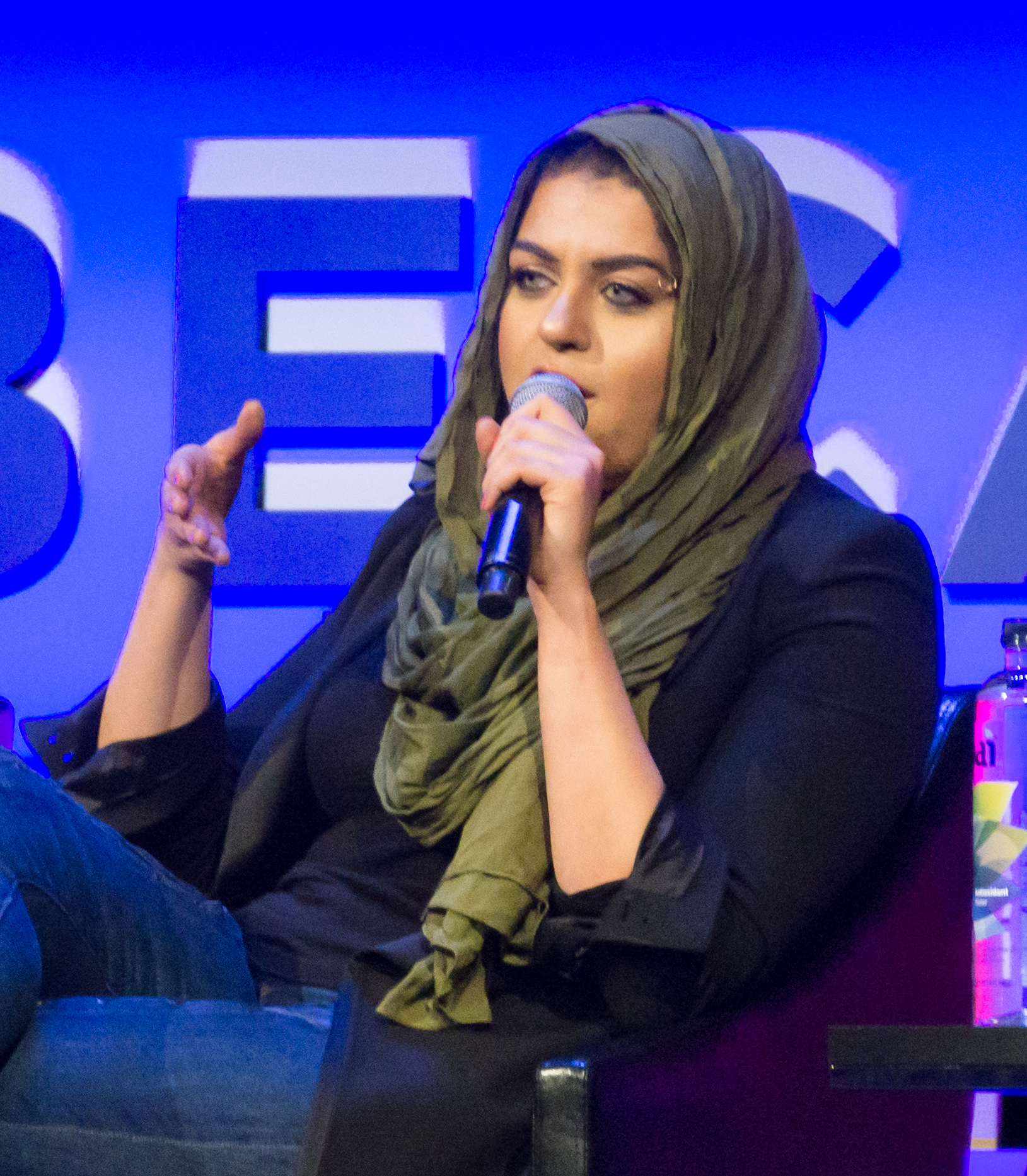 Amani Al-Khatahtbeh at the Time's Up event at the 2018 Tribeca Film Festival (Tribeca Talks: Time's Up). A series of talks/performances about Time's Up/sexual harassment.